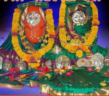 ghodeshwari devi